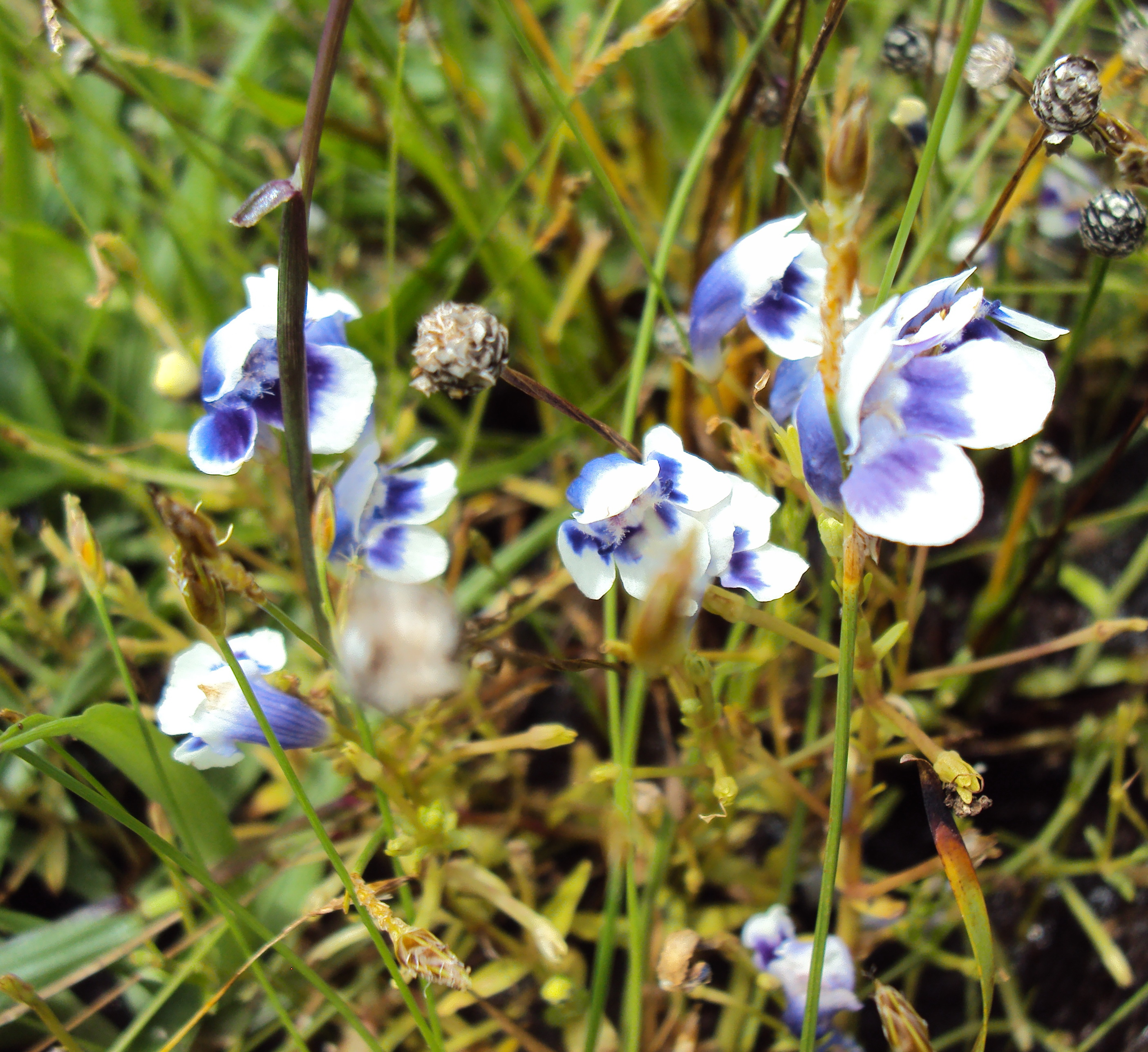 Lindernia hyssopoides